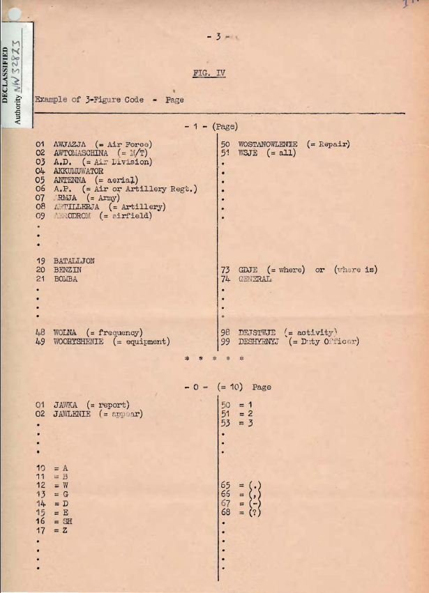 Figure IV of TICOM document I-19d Report on Interrogation of KONA 1 at Revin, France, June 1945. Image is of 3-Figure code book Other information Image is printer on Orange Blotter paper. All TICOM documents are in the public domain, and this has already been decided by Dianna.